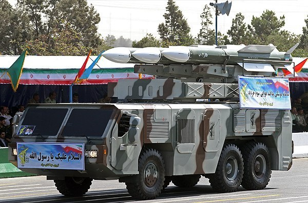 IRGC-ASF 3rd Khordad transporter erector launcher (TEL) @ Sacred Defense Parade - 2014 Tehran.